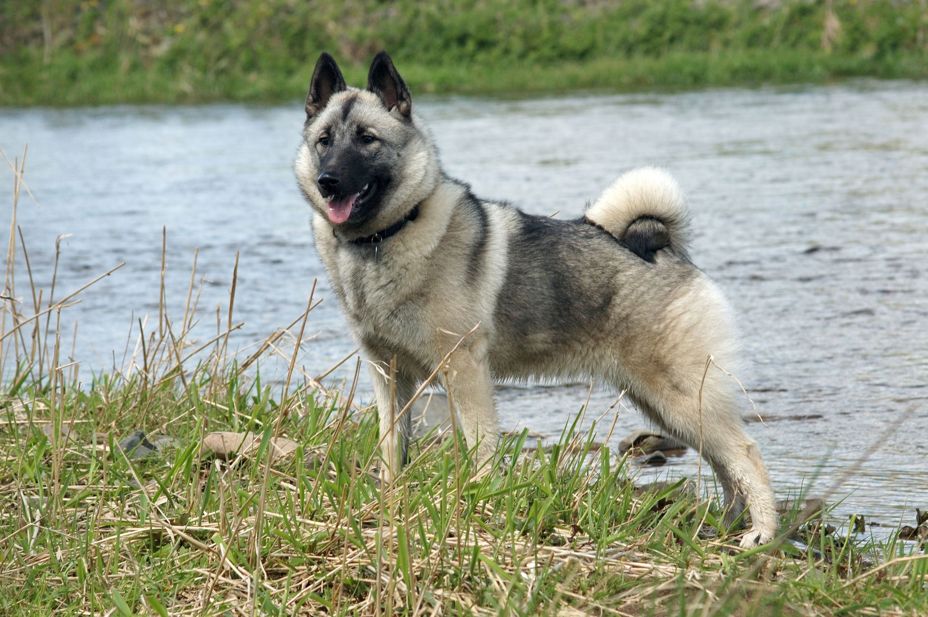 Norwegian Elkhound by the river